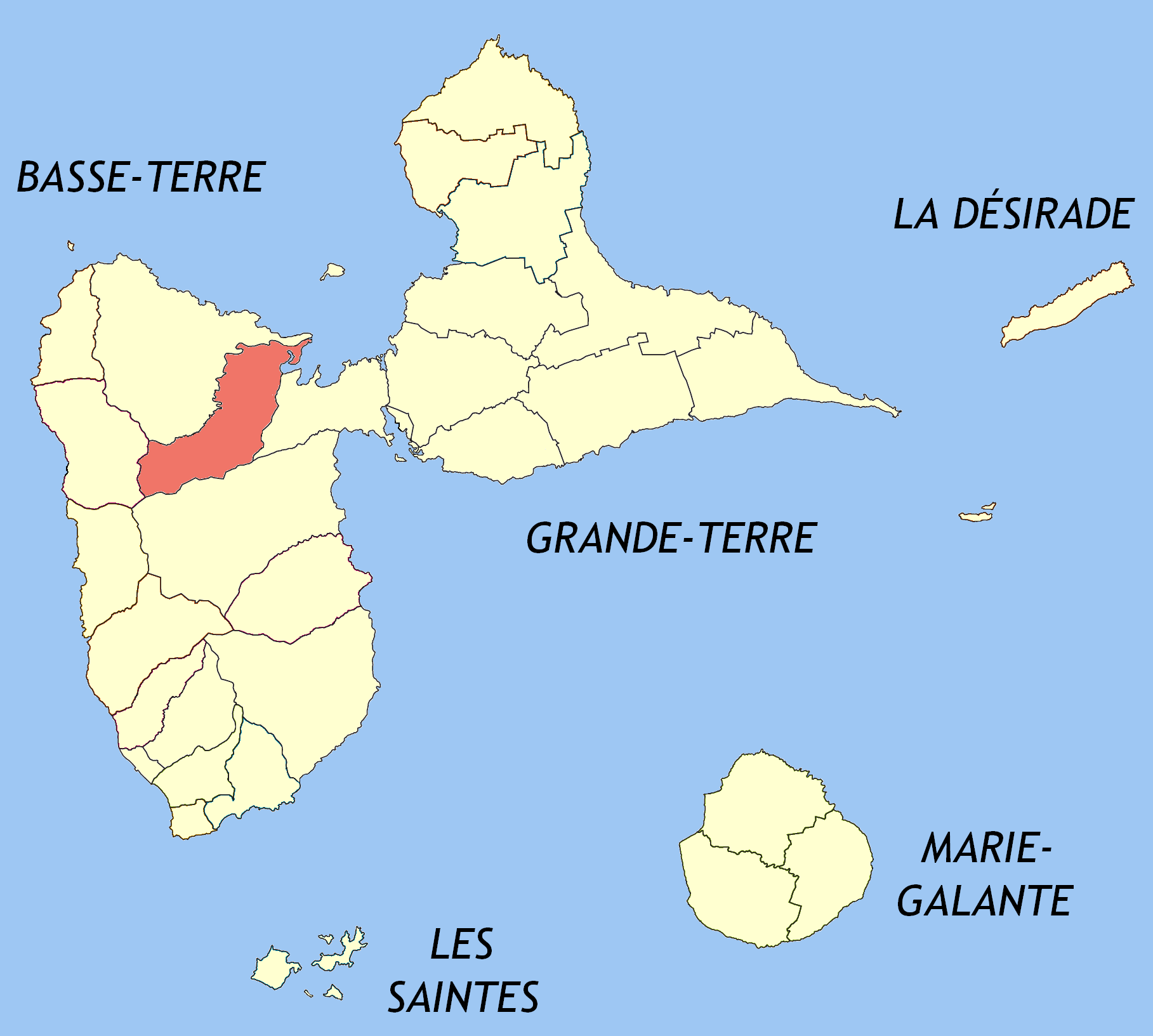 Created map myself.